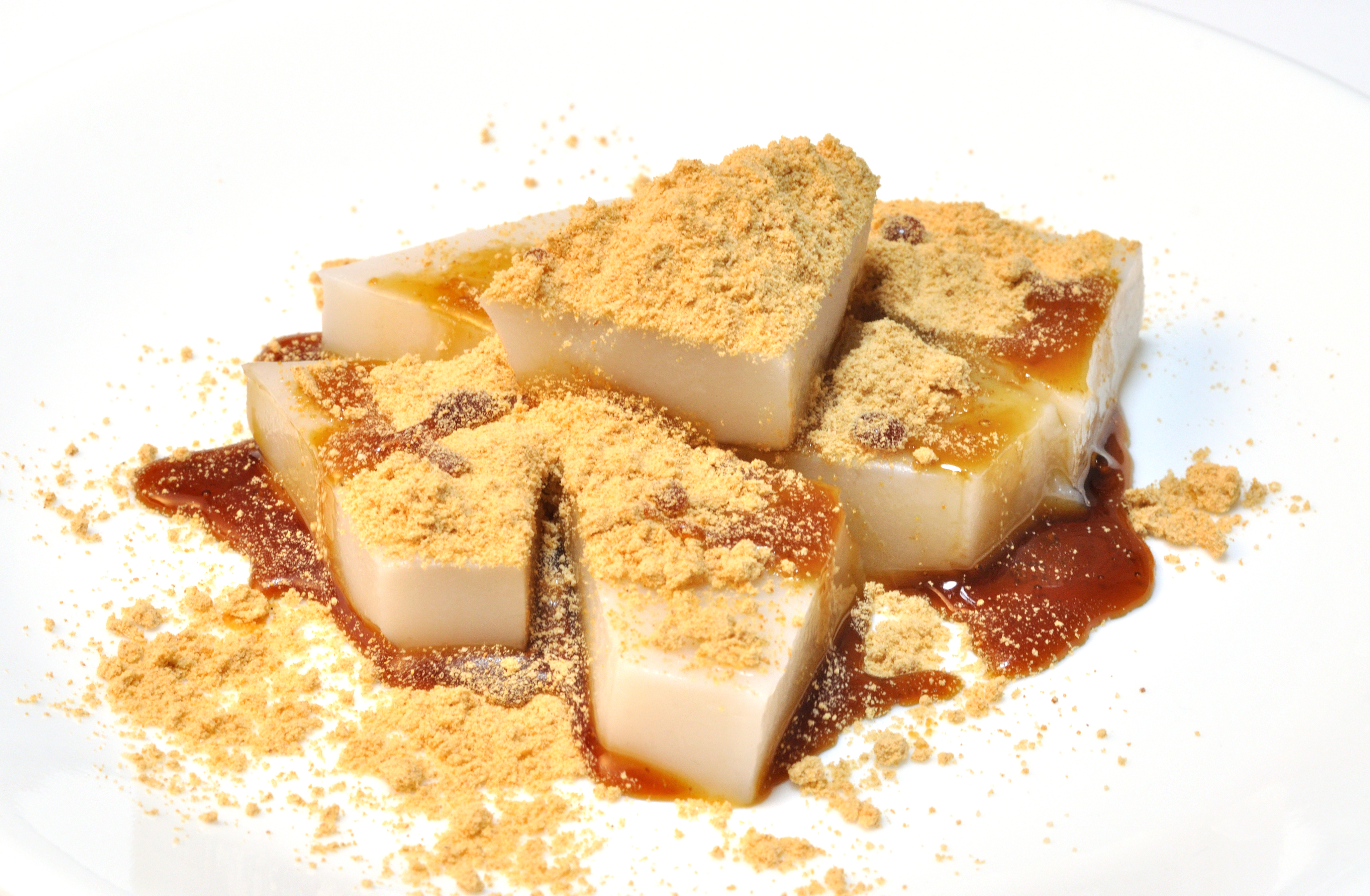 Typical example of Kuzumochi.